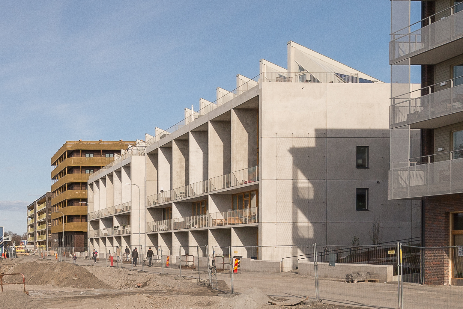 Stora Sjöfallet 2 is part of the city block Stora Sjöfallet in Norra Djurgårdsstaden, Stockholm. Sjöfallet 2 consists of 2 apartment buildings, built in 2016. Architects: JoliArk.